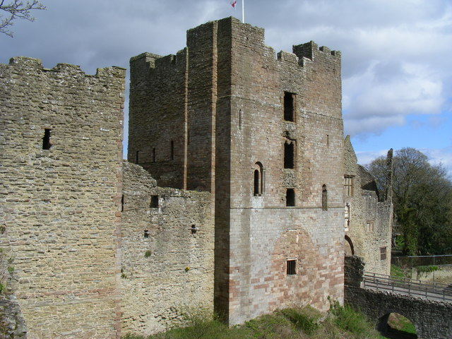 The Great Tower Gatehouse Keep Ludlow Castle